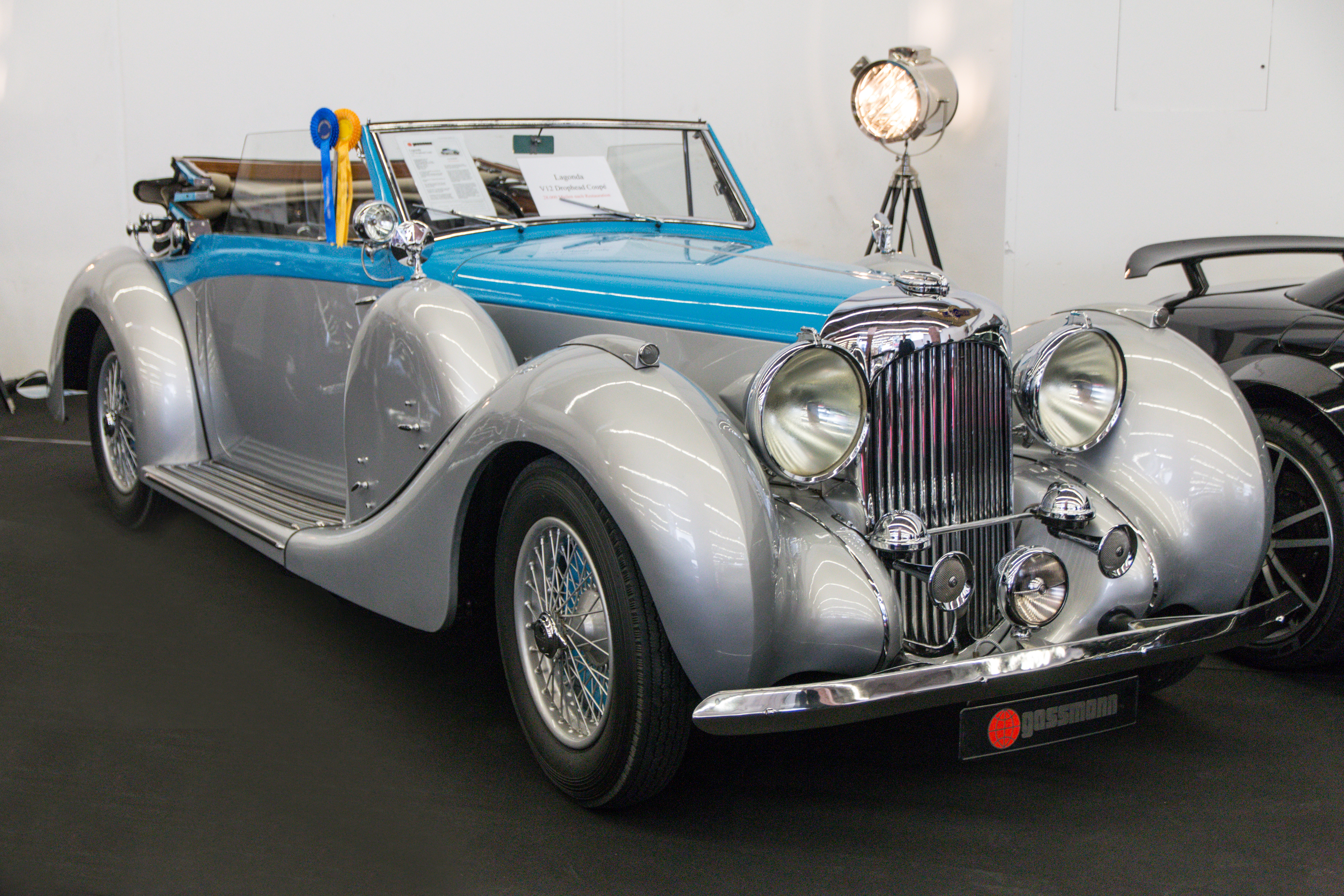 Lagonda V12 Drophead Coup